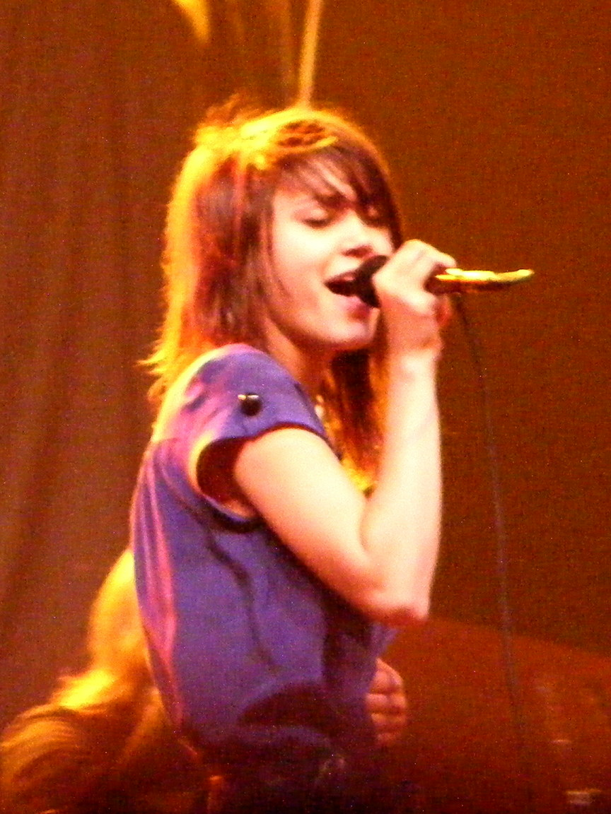 Taken by Kenny Chung at a Meg & Dia concert at the Roseland Ballroom, NYC on 02/15/08.